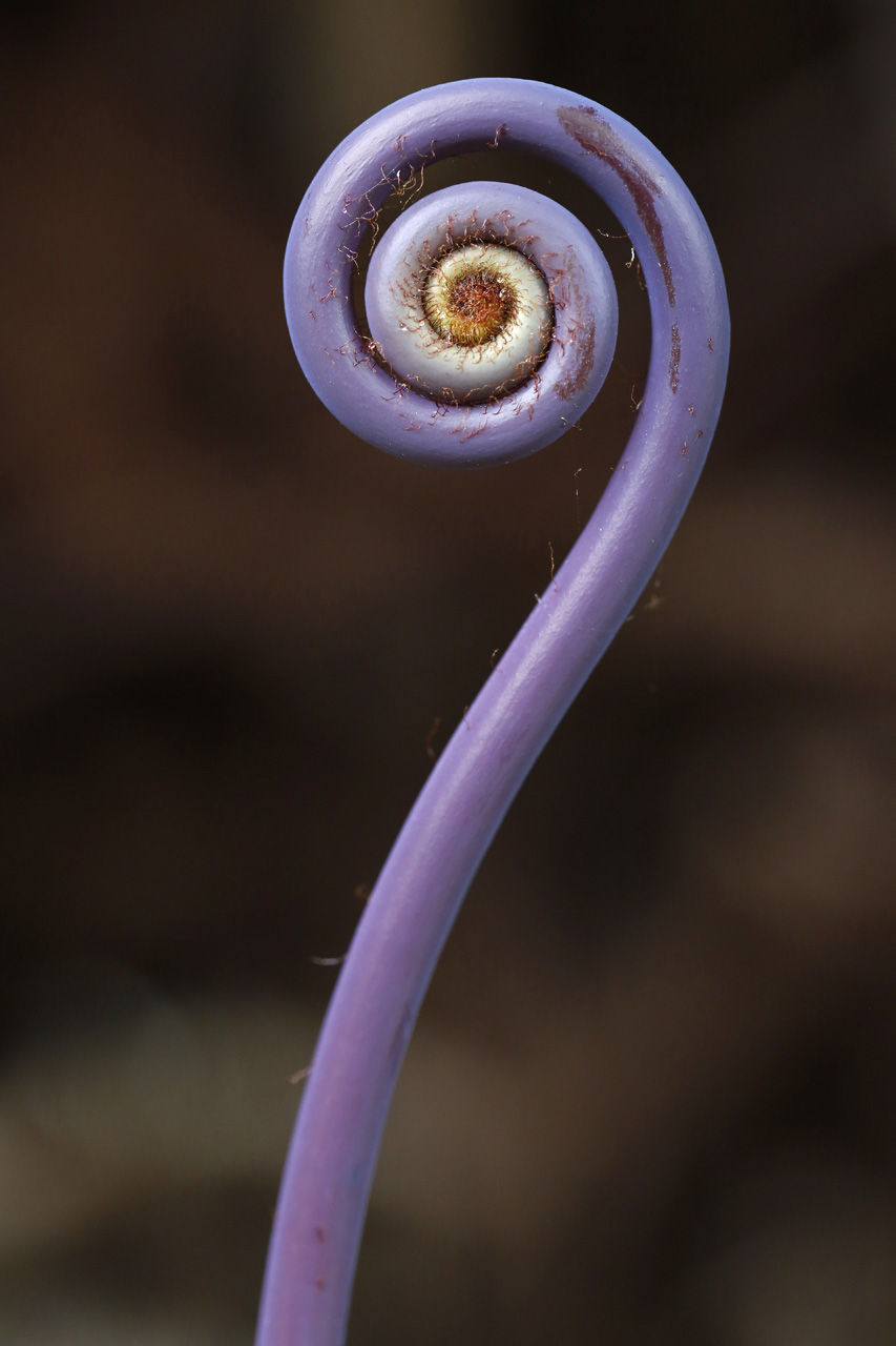 Close up of a young ‘Uluhe frond.